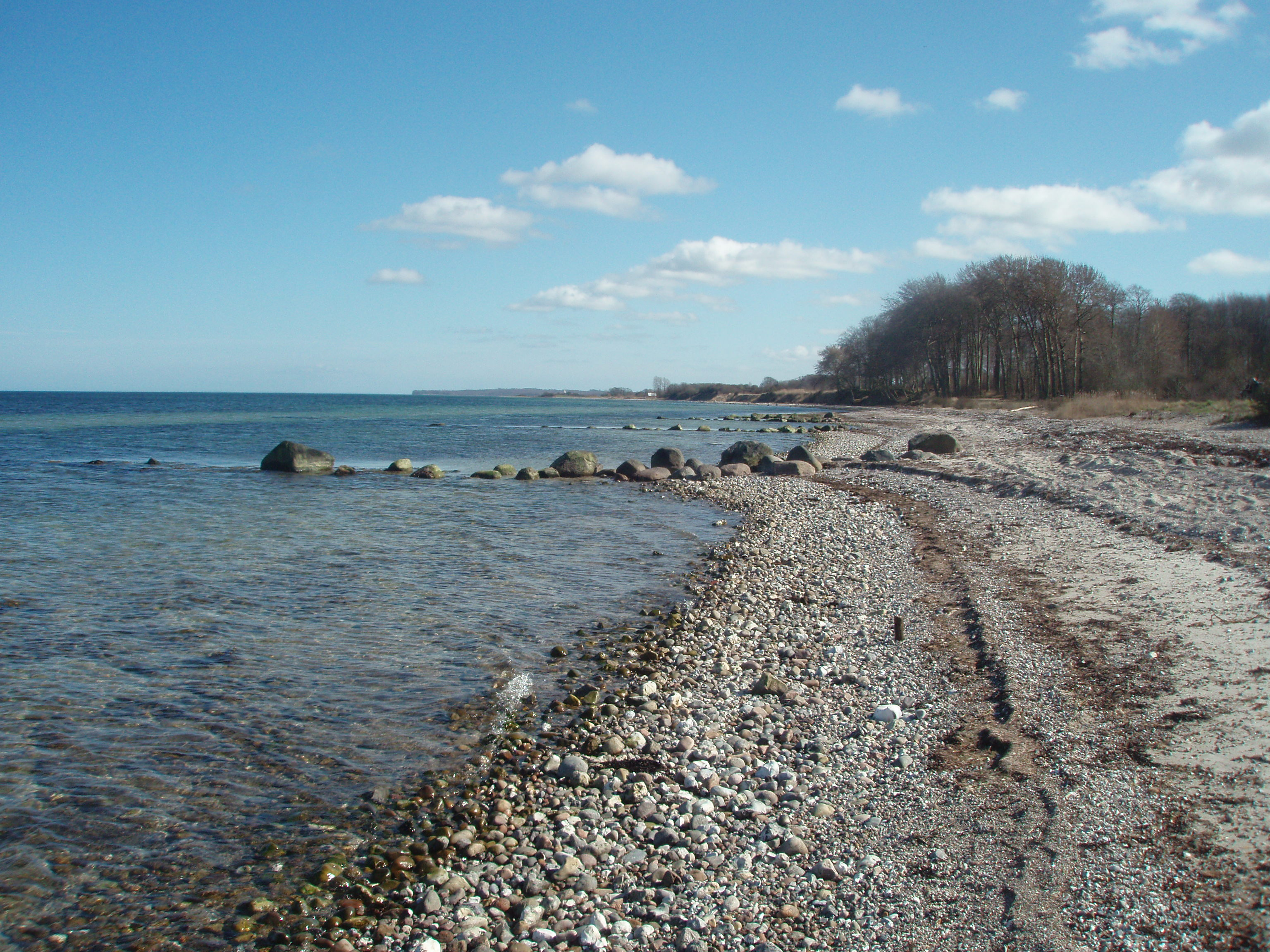 The coast at Havnbjerg, Denmark. In the background: Nørreskoven.